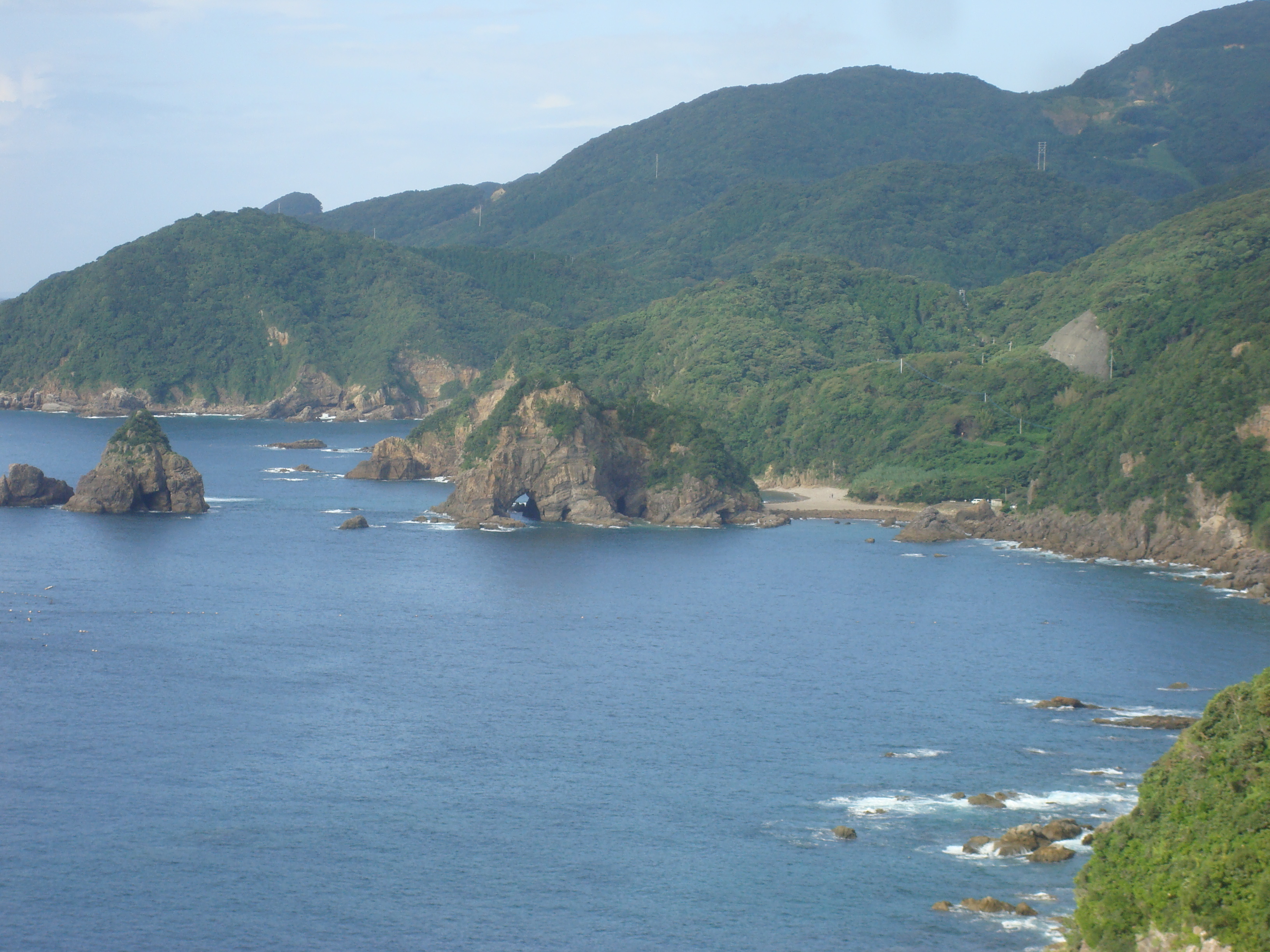 Myoukenura. A registered natural monument of Japan. It is located in Kumamoto Prefecture, Amakusa City, Amakusa town.